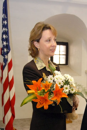 Colleen Graffey. United States deputy Assistant Secretary of State for Public Diplomacy and former professor of law at Pepperdine University.